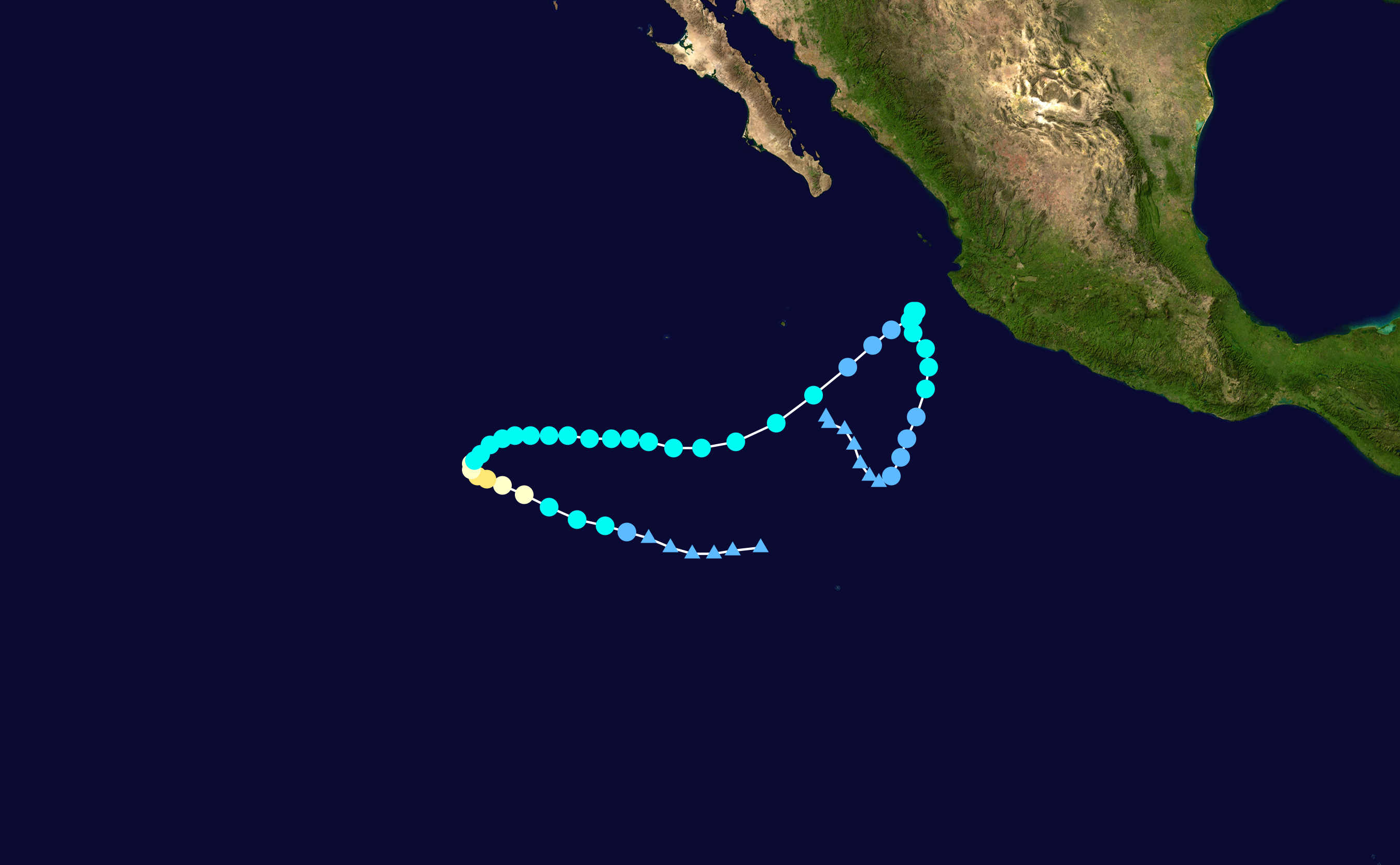 Track map of Hurricane Irwin of the 2011 Pacific hurricane season. The points show the location of the storm at 6-hour intervals. The colour represents the storm's maximum sustained wind speeds as classified in the Saffir–Simpson scale (see below), and the shape of the data points represent the nature of the storm, according to the legend below. Saffir–Simpson scale Tropical depression≤38 mph≤62 km/h Category 3111–129 mph178–208 km/h Tropical storm39–73 mph63–118 km/h Category 4130–156 mph209–251 km/h Category 174–95 mph119–153 km/h Category 5≥157 mph≥252 km/h Category 296–110 mph154–177 km/h Unknown Storm type Tropical cyclone Subtropical cyclone Extratropical cyclone / Remnant low / Tropical disturbance / Monsoon depression